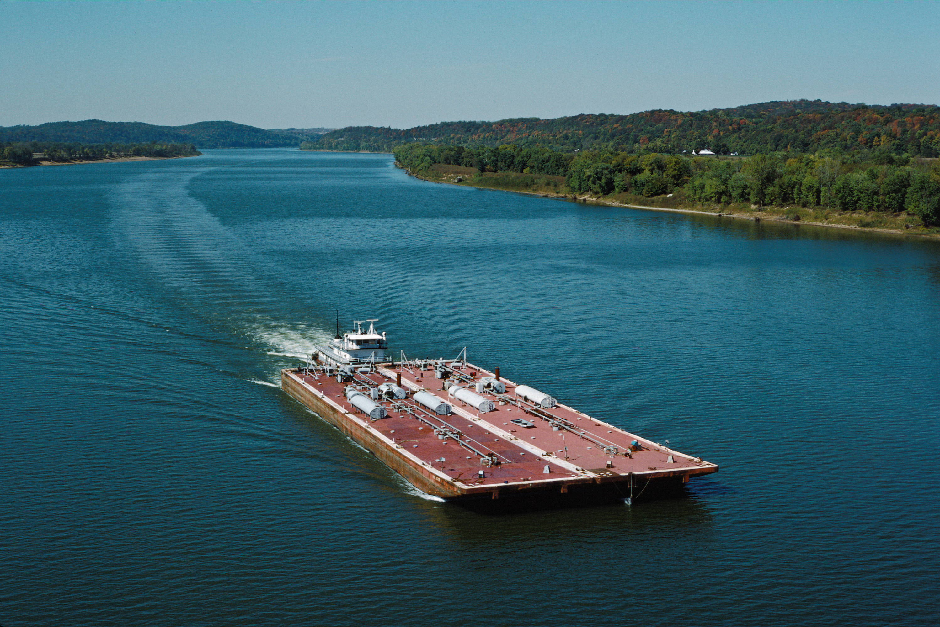 Looking NW (downstream) from Matthew E. Welsh Bridge between Meade Co., Kentucky, and Harrison Co., Indiana Towboat "Ben McCool" (doc. # 270809) upbound Ohio River mile 648, near Mauckport, Indiana (1 in series of 6)